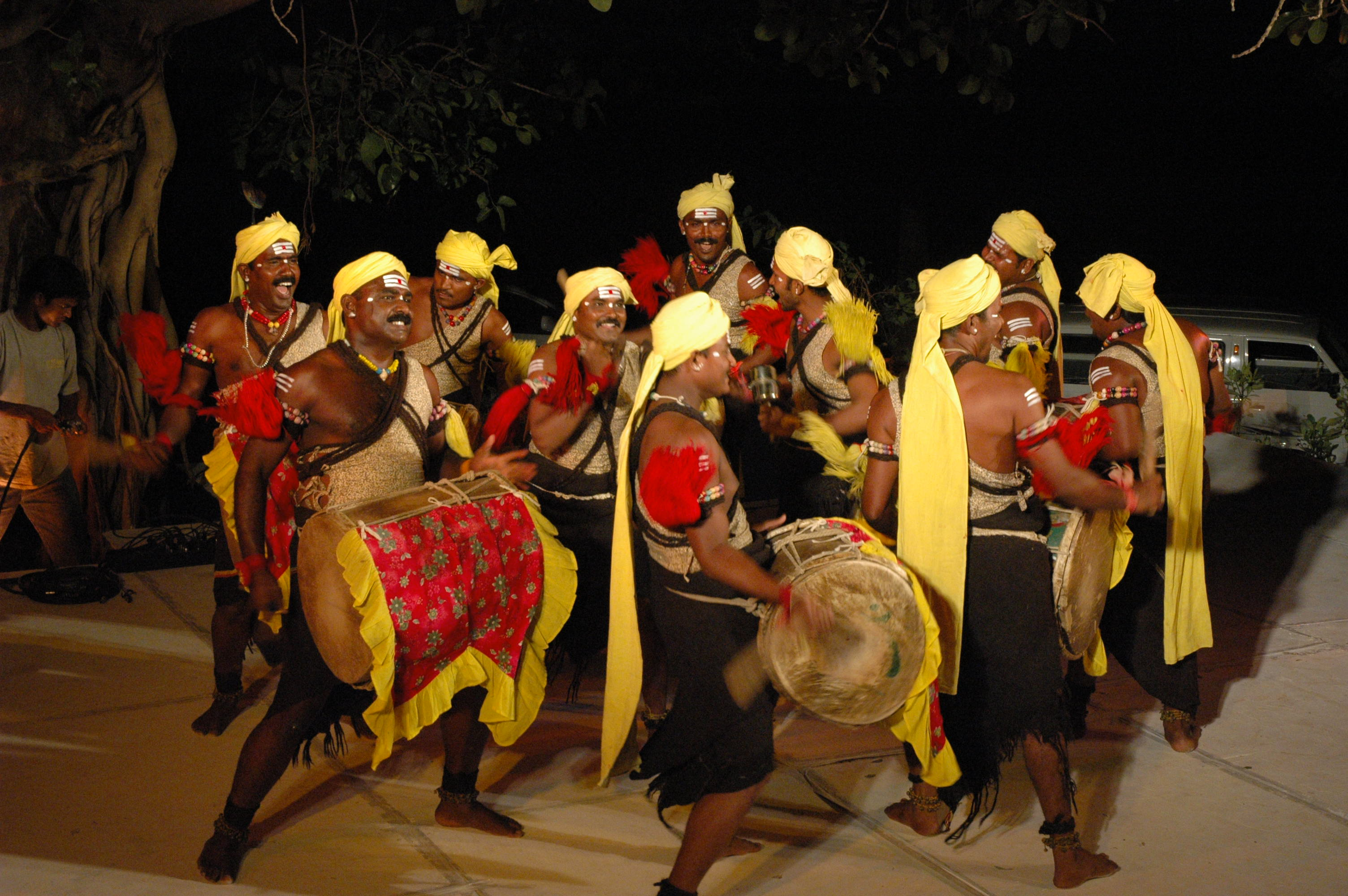 Dollu Kunitha performance at the Fireflies Festival of Sacred Music, April 8, 2006. Photograph by Kiran Jonnalagadda (that's me).